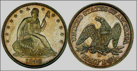 1846 half dollar coin struck by the New Orleans Mint.